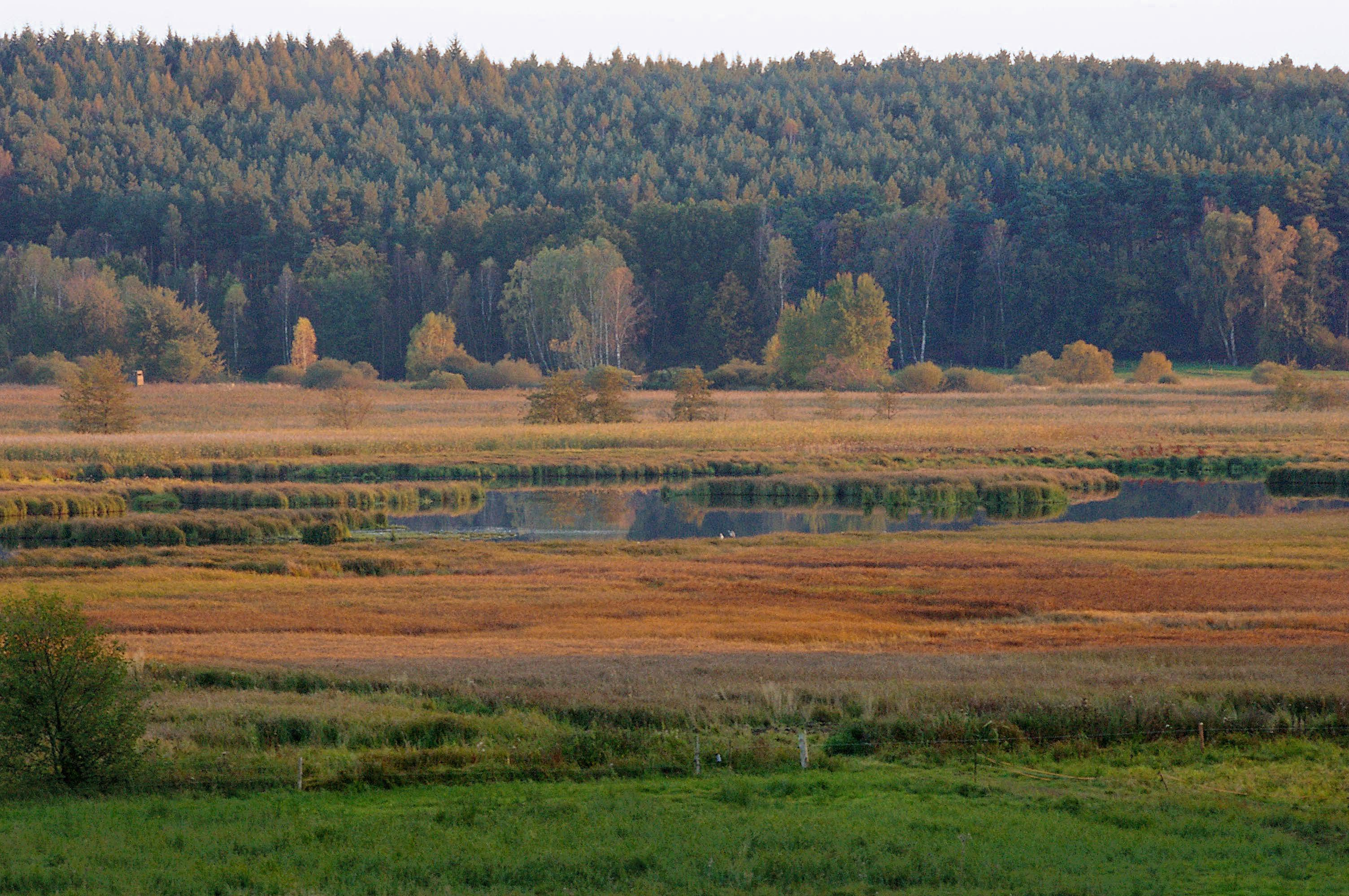 The moorland "Rambower Moor" in northern Germany.